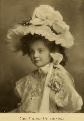 The leading lady of the Gnome Motion Picture Company was Mildred Hutchinson. Though the animated film company never appears to have released a work, she was a popular child actress.